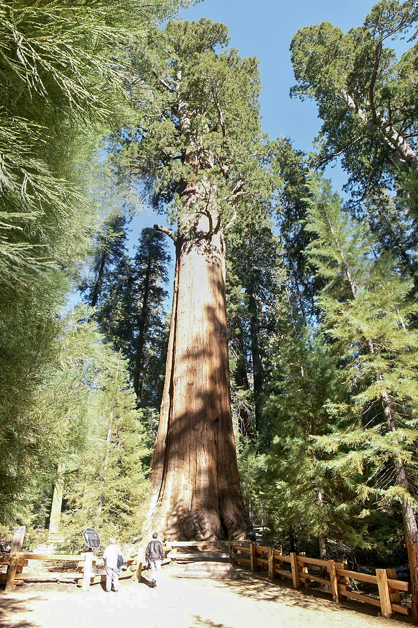 General Sherman Tree - Sequoia National Park